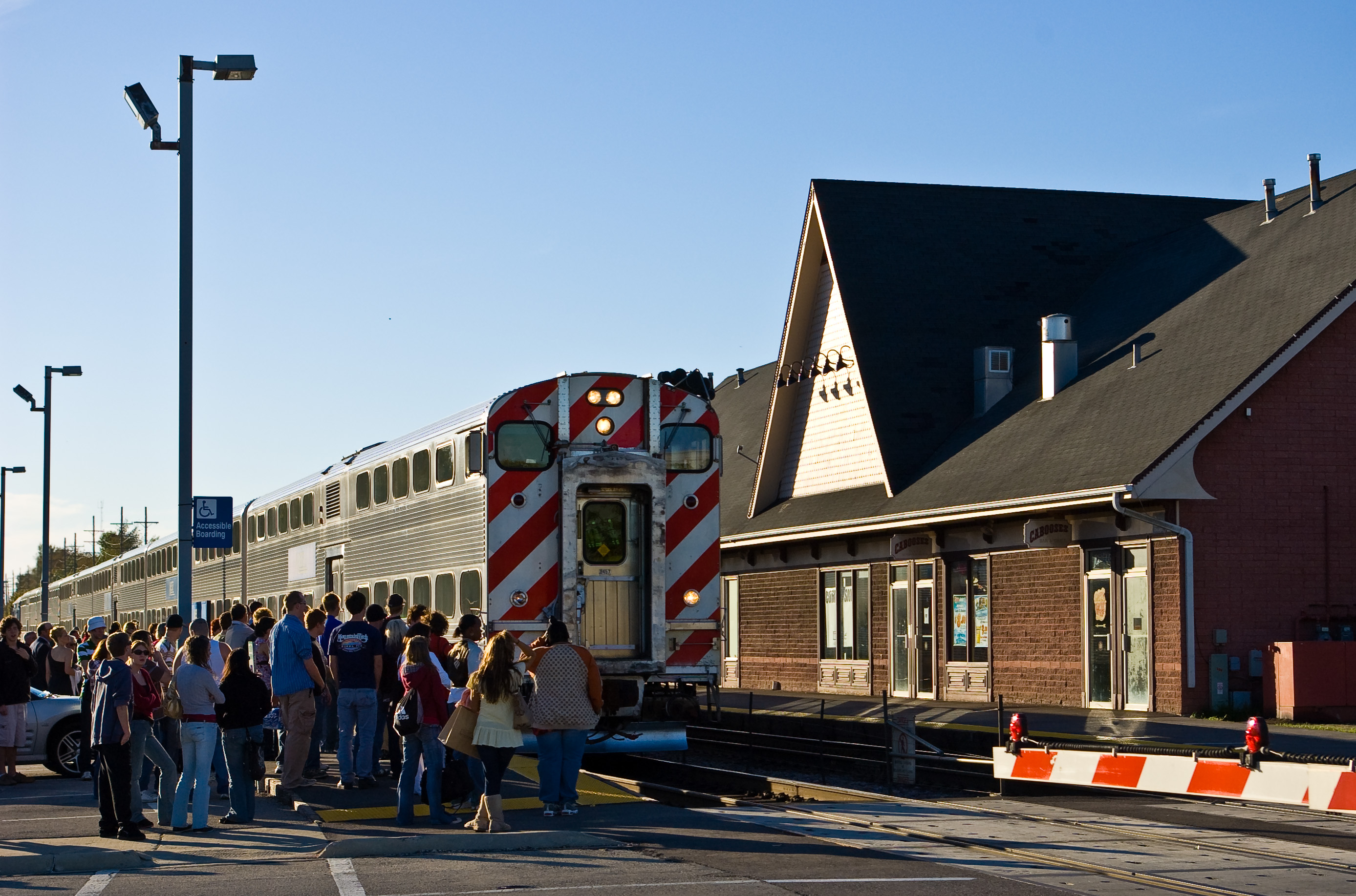 Geneva Metra station on the Union Pacific/West Line in Geneva, Illinois.